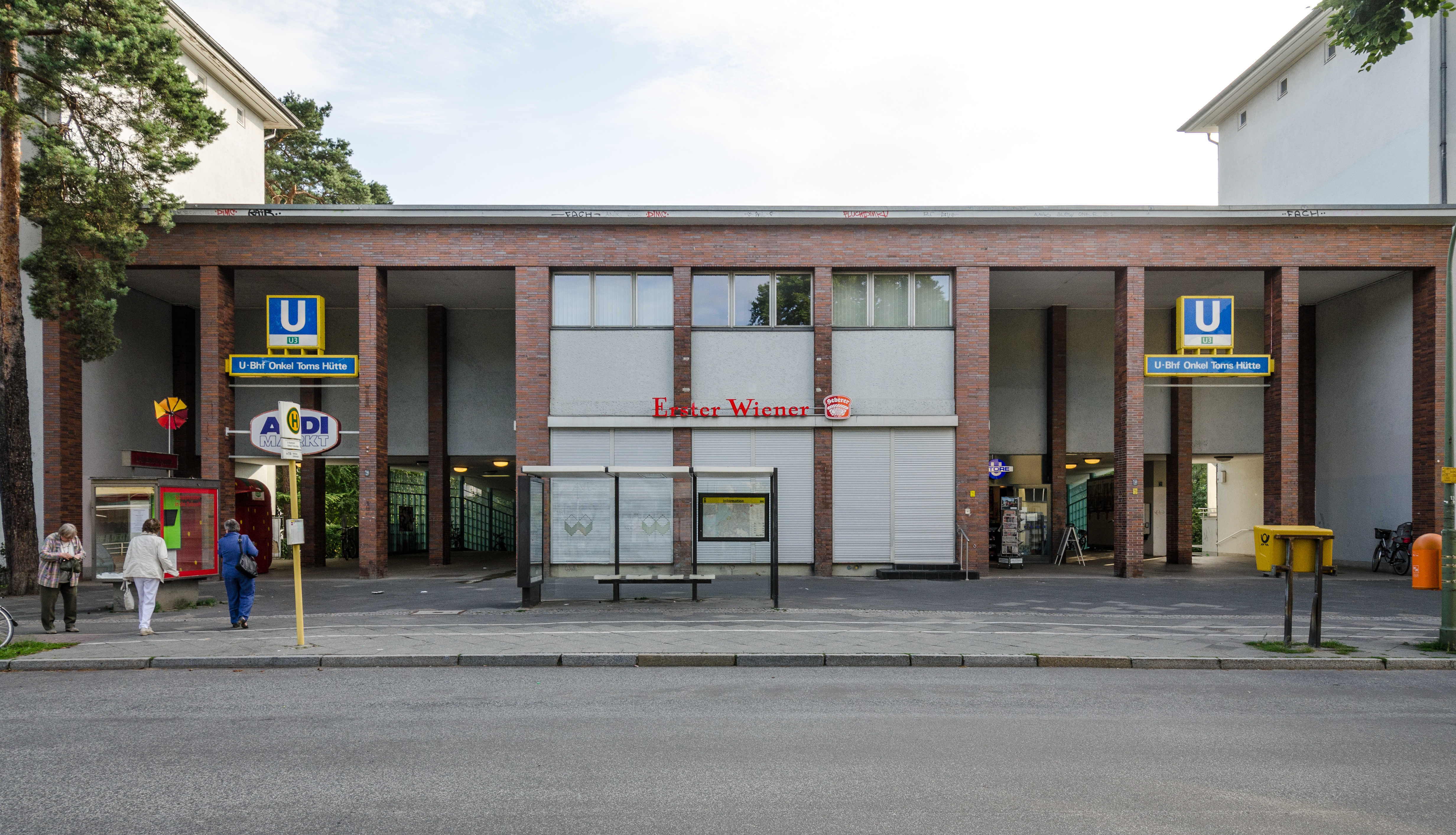 The entry facing the Riemeisterstraße of the Station Onkel Toms Hütte in Berlin-Zehlendorf